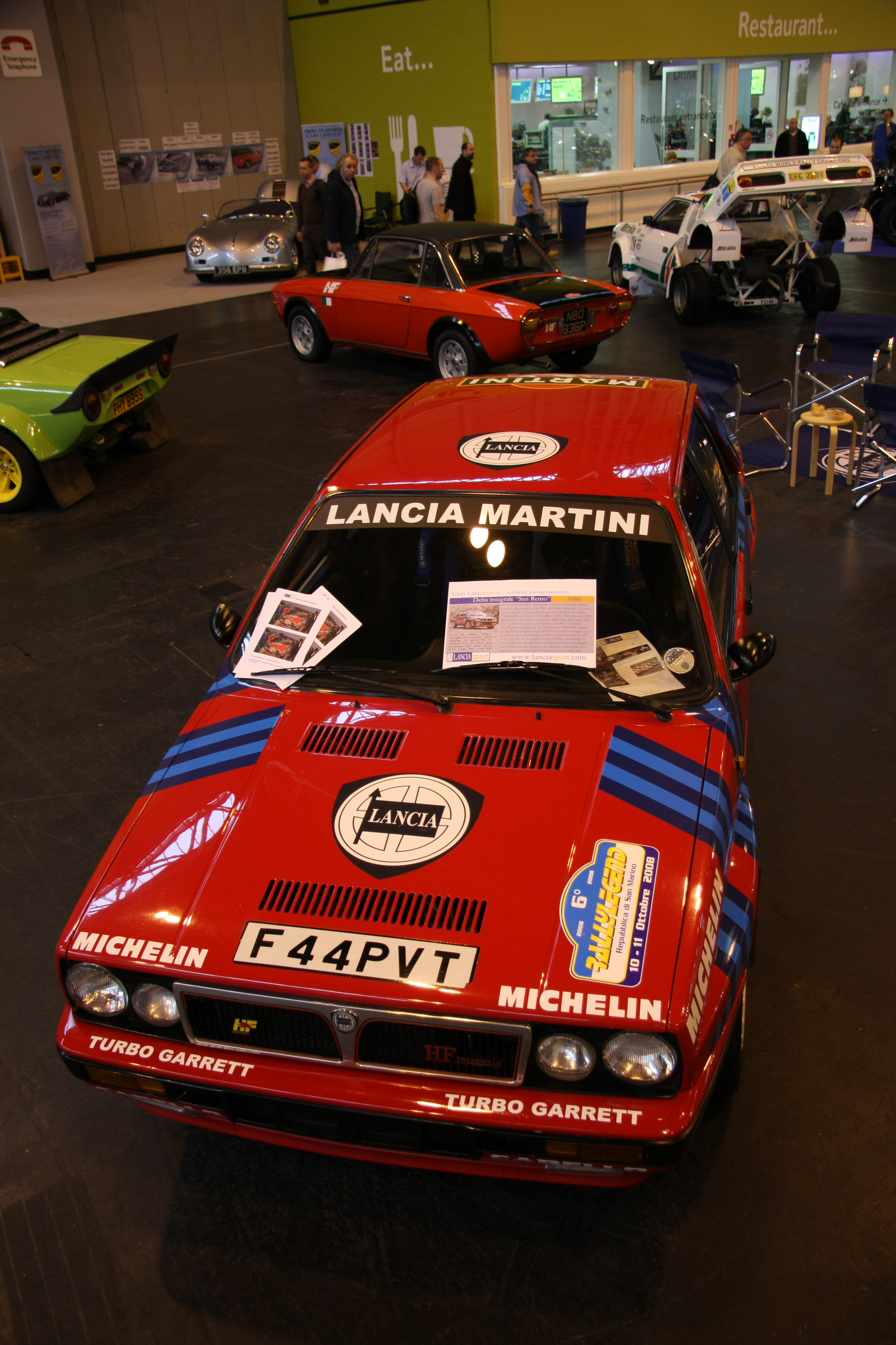 2008 NEC Classic Car Show